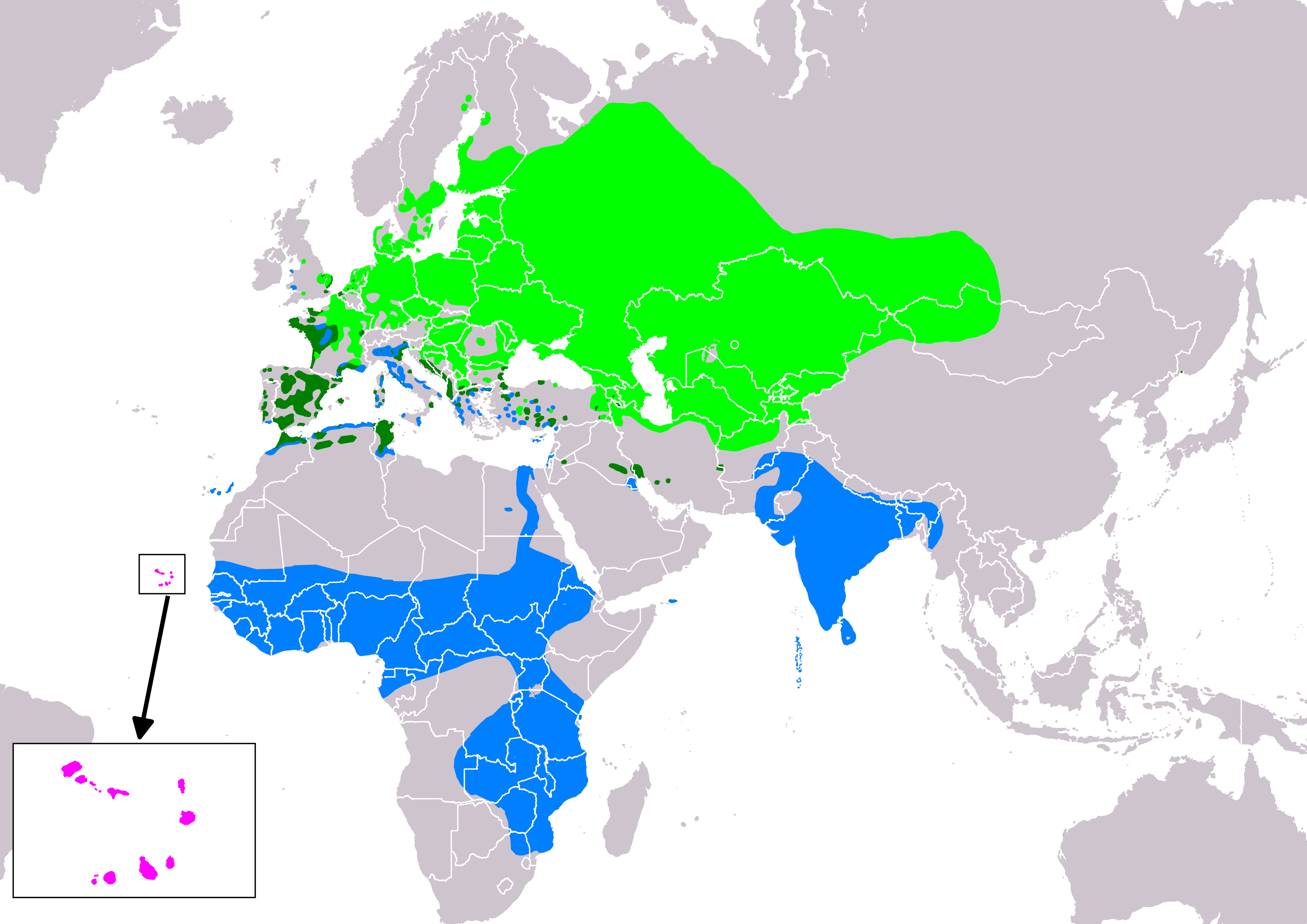 The distribution map of westen marsh-harrier (Circus aeruginosus) according to IUCN version 2018.2 (map 2016.3) , Legend: Extant, breeding (#00FF00), Extant, resident (#008000), Extant, non-breeding (#007FFF), Extant & Vagrant (seasonality uncertain) (#FF00FF)